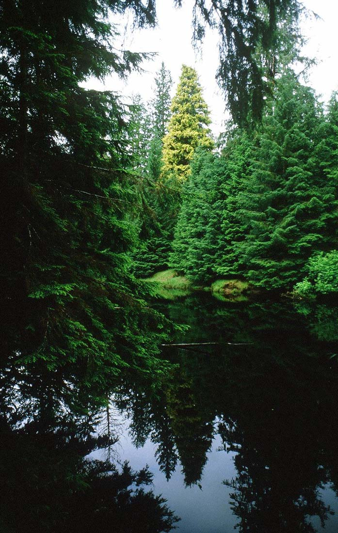 Sitka Spruce Picea sitchensis, the Kiidk'yaas "Golden Spruce" tree in 1984. Queen Charlotte Islands, British Columbia, Canada.